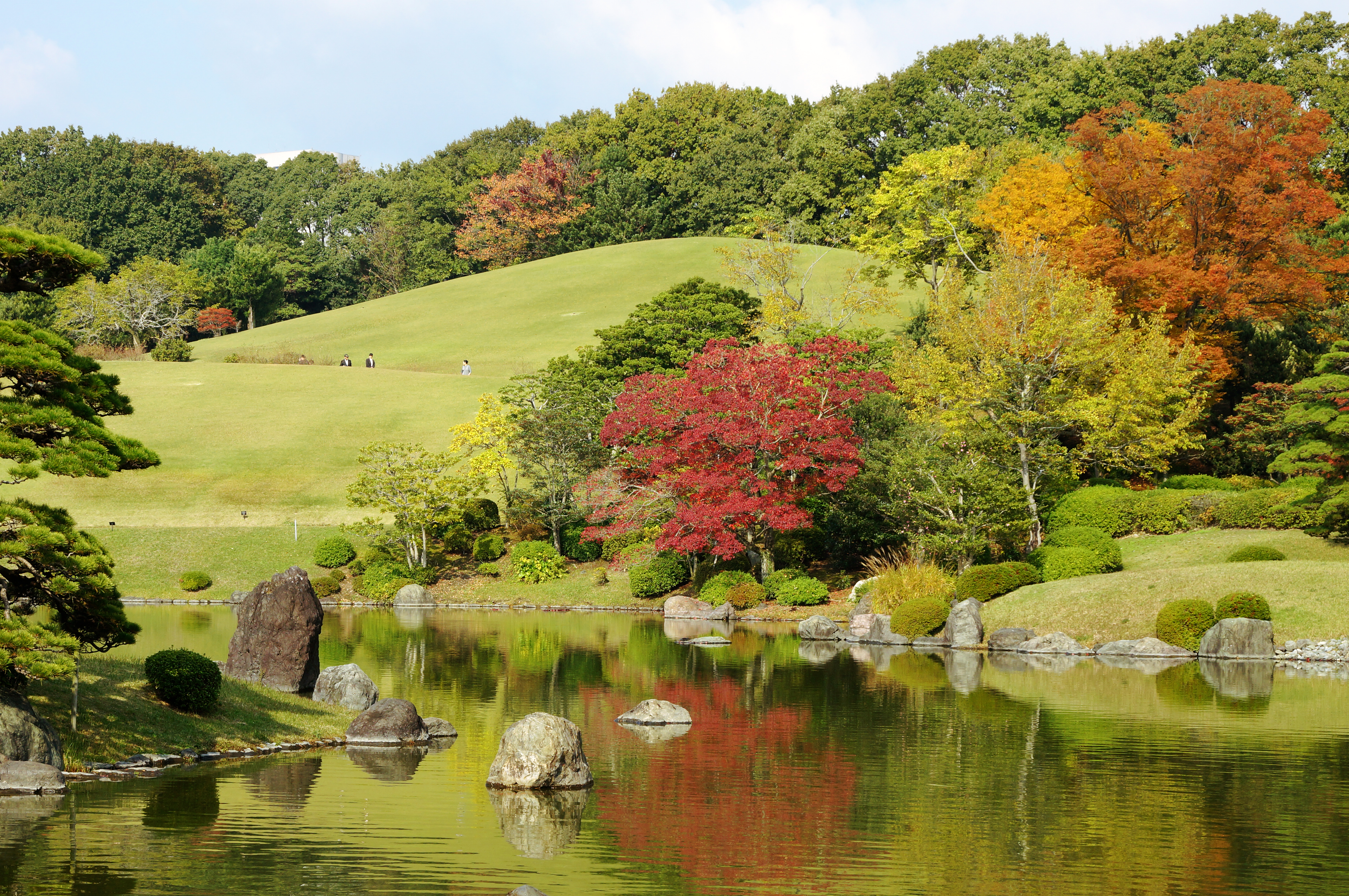 At Expo '70 Commemorative Park in Suita, Osaka prefecture, Japan.